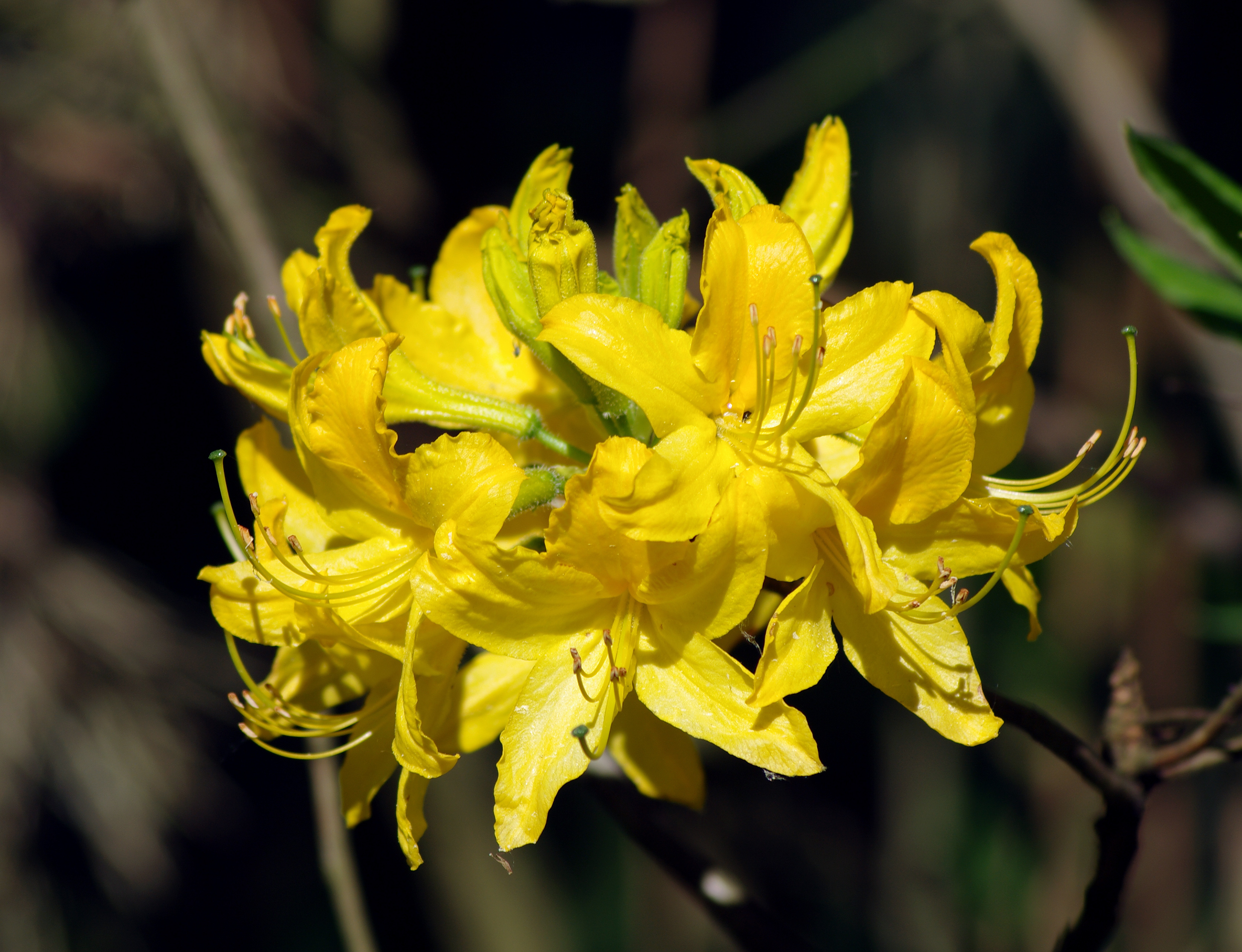 Yellow Azalea (Honeysuckle Azalea)